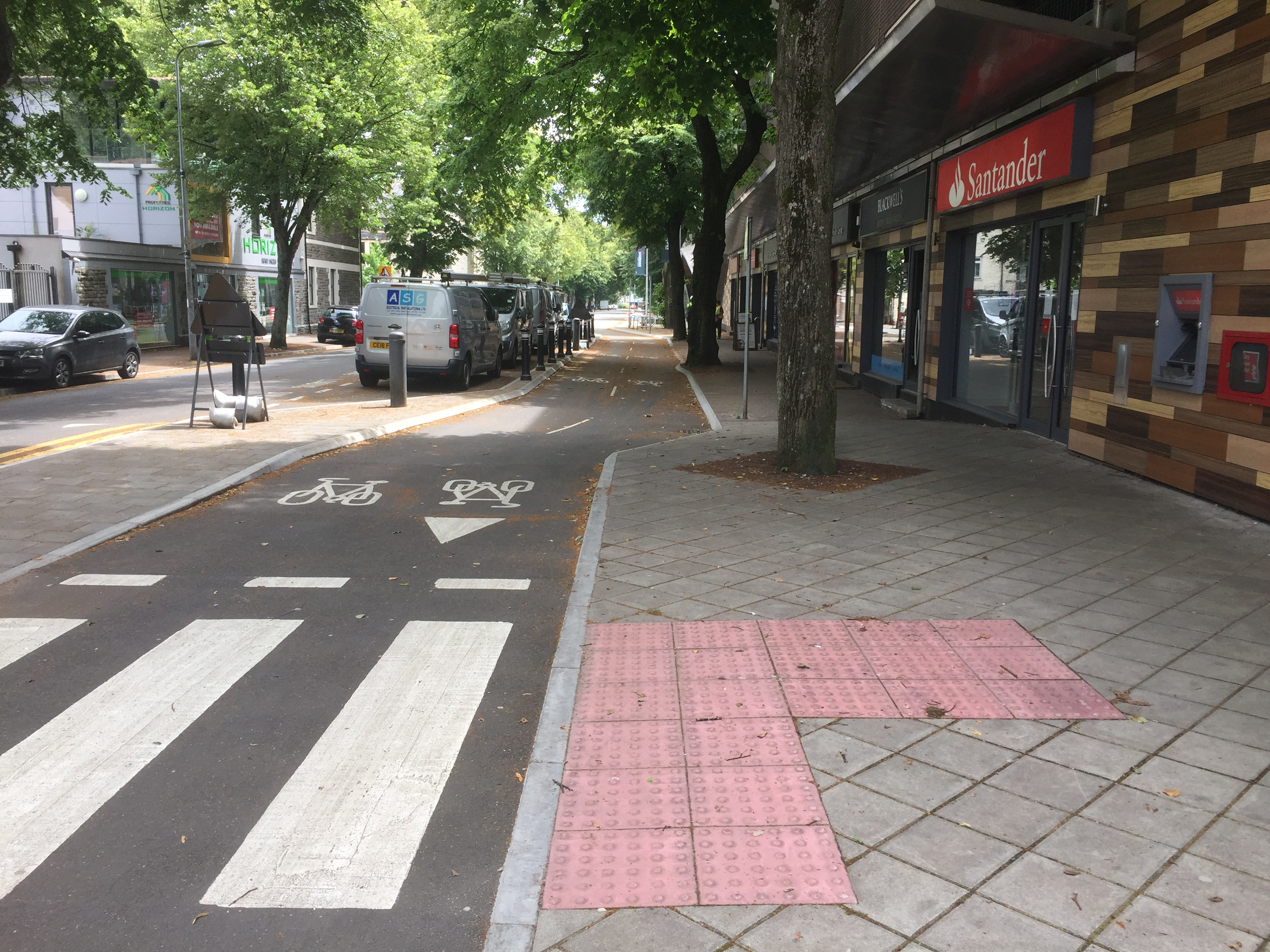 Looking down Cycleway 1, Senghenydd Road, Cardiff. There is a courtesy pedestrian crossing in the foreground, with a ramp for cyclists to reduce speed. This section of cycleway is next to shops on the ground level of Cardiff Student Union.